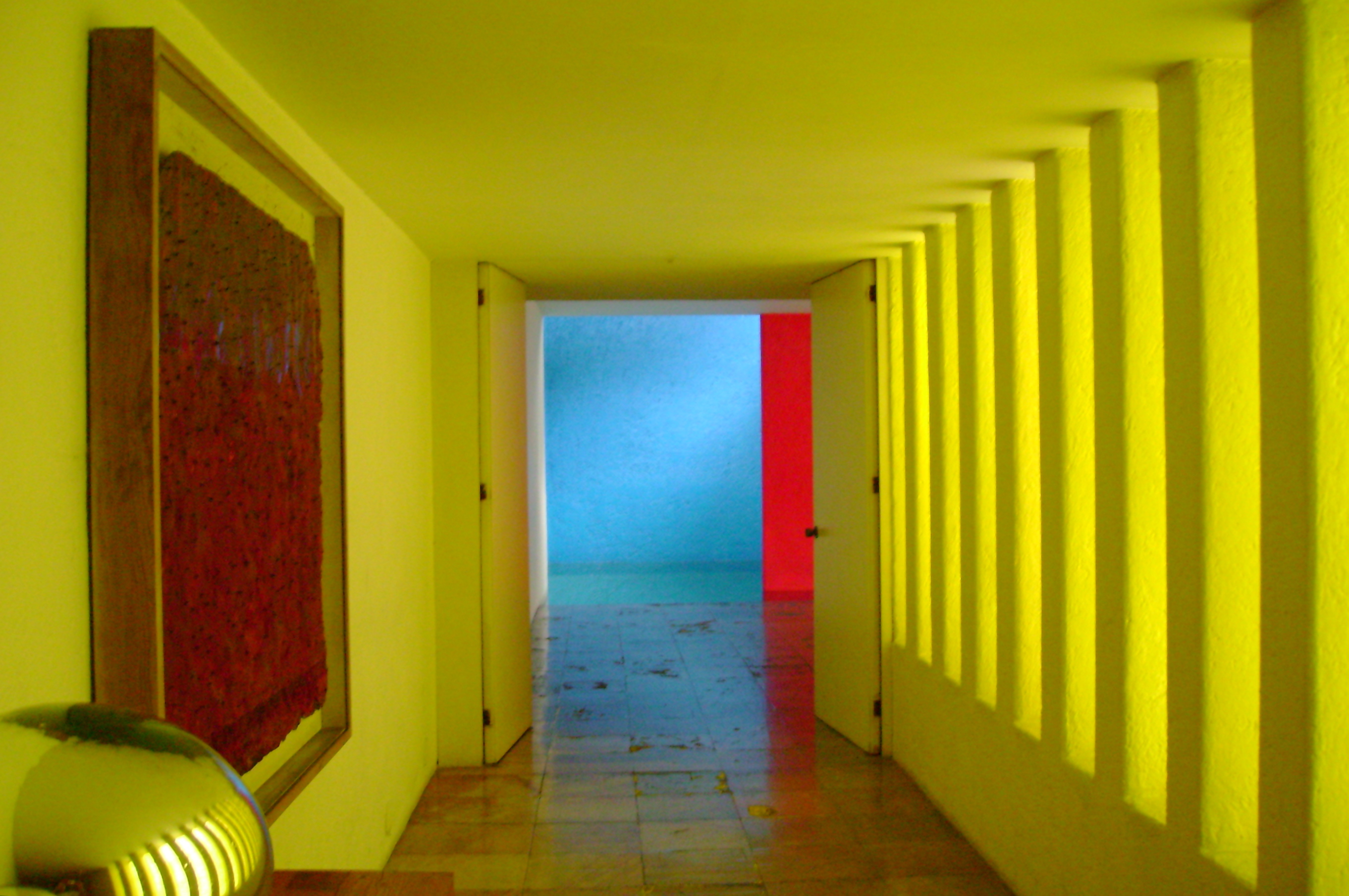 Interior of Casa Gilardi, by Luis Barragán, in Mexico City, Mexico.